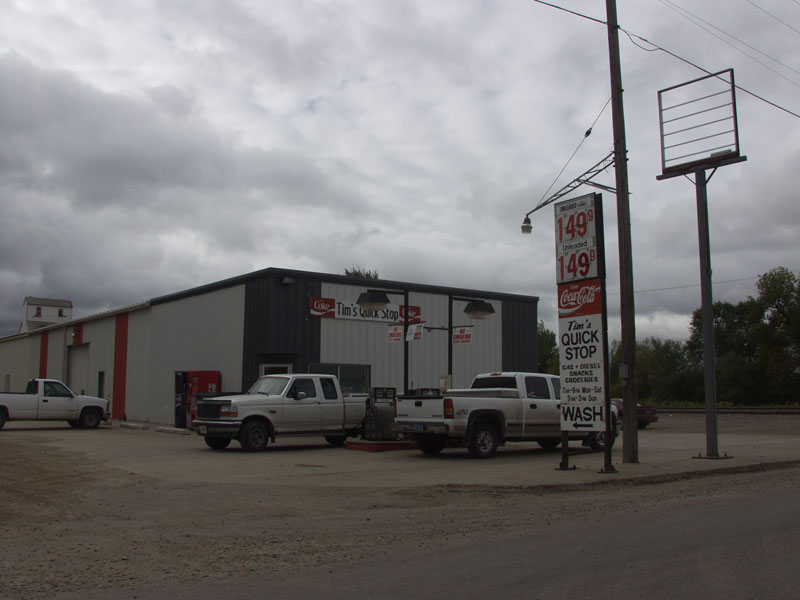 Thompson, North Dakota. From .